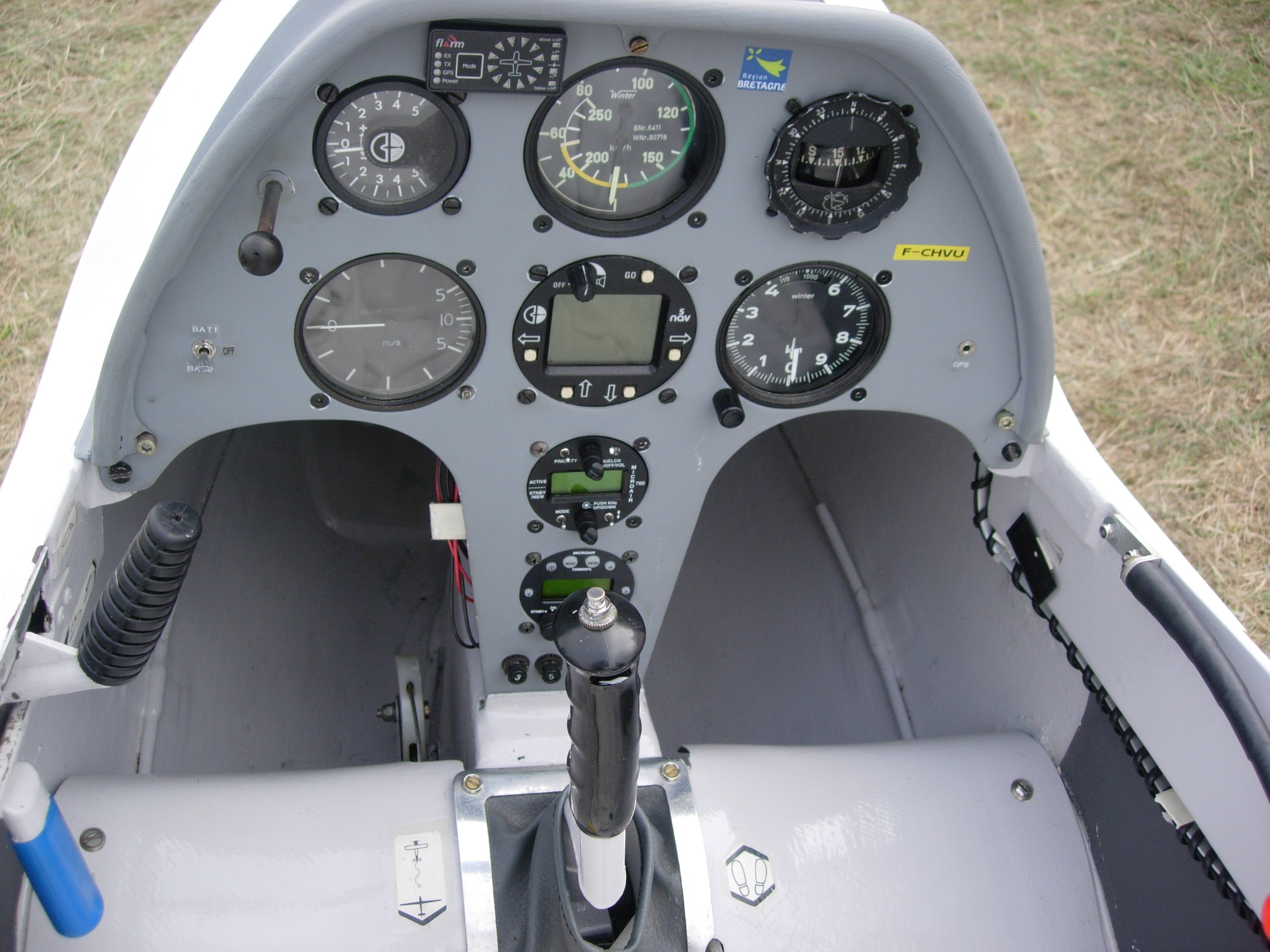 Instrumentation d'un planeur moderne Schempp hirth Janus